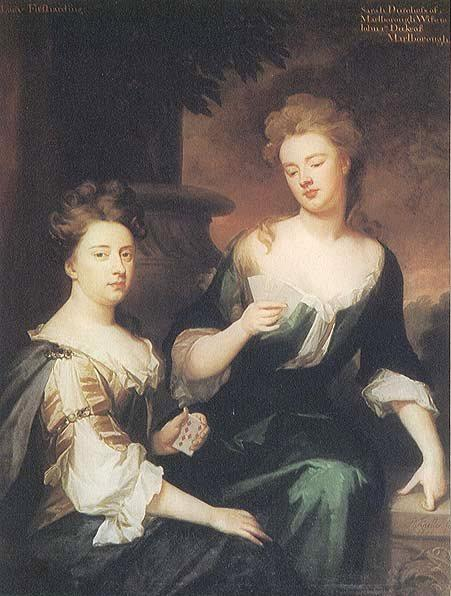 The Duchess of Marlborough (right) playing cards with her closest friend, Barbara, Lady Fitzharding, by Sir, c. 1702